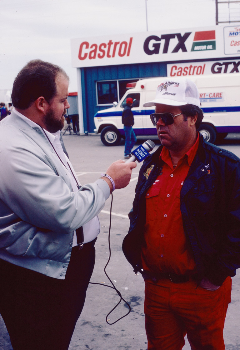 Ed "Ace" McCulloch being interviewed by KDNT radio. After a long successful career as a driver, Ace now works for Don Prudhomme as Larry Dixon's crew chief.1987 NHRA Winston All-Stars, Texas Motorplex